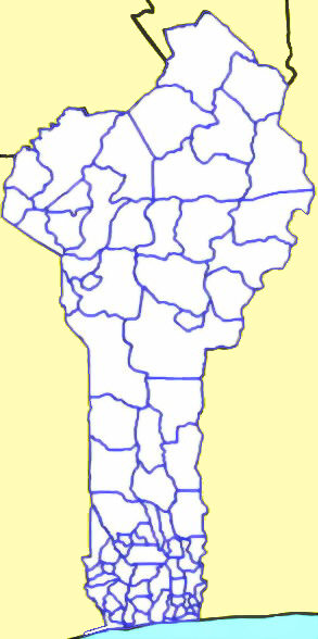 Localization map of Benin + communes